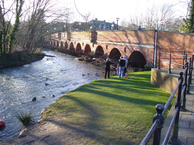 Leatherhead Town Bridge